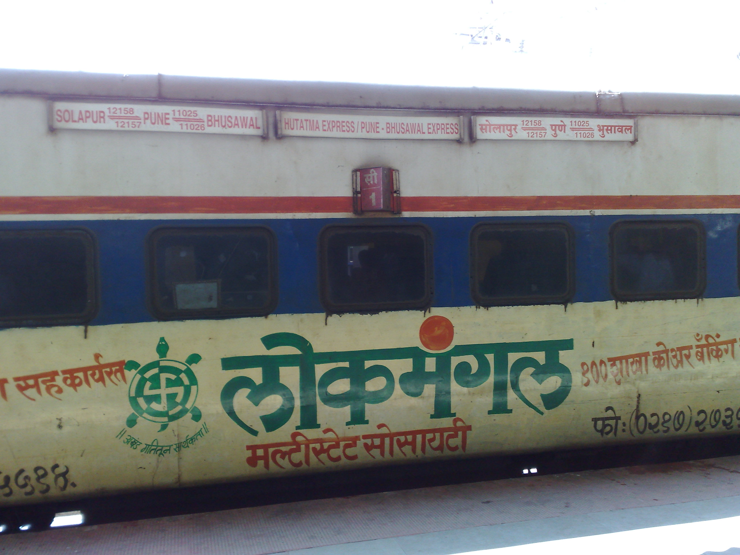 11025 Pune Bhusaval Express - AC Chair Car coach